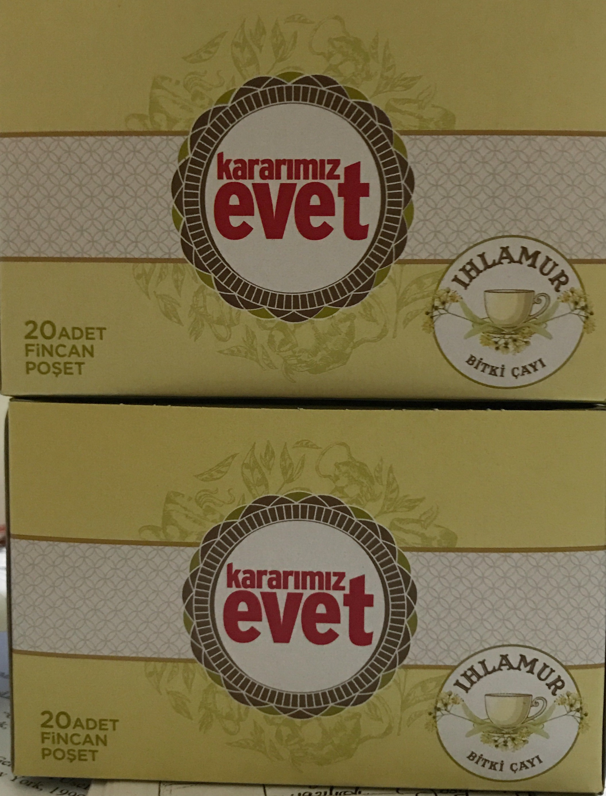 Linden tea bags distributed by AK Party for 'Yes' campaing of 2017 Turkish constitutional referendum, İstanbul.